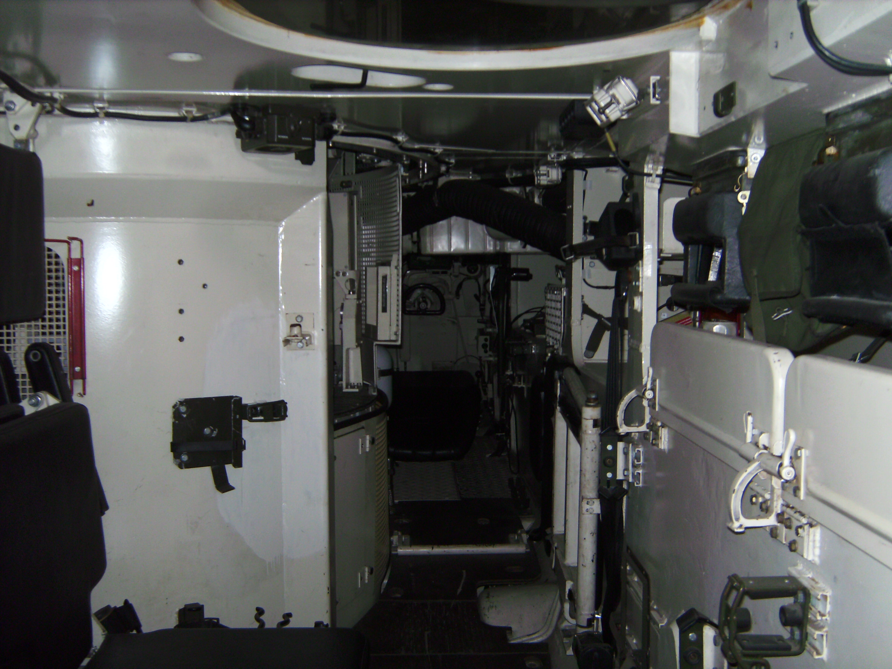 Inside german AIV Marder 2